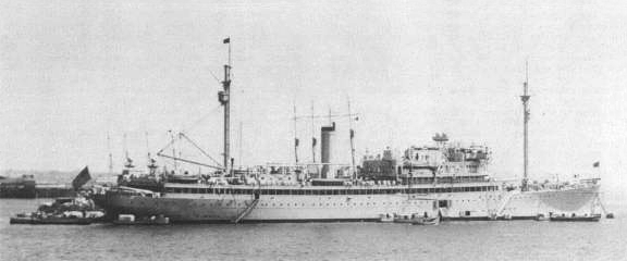 The U.S. Navy destroyer tender USS Whitney (AD-4) at San Diego, 7 October 1932. Her boats are alongside, and the masts of four "flushdeck" destroyers can be seen beyond her.